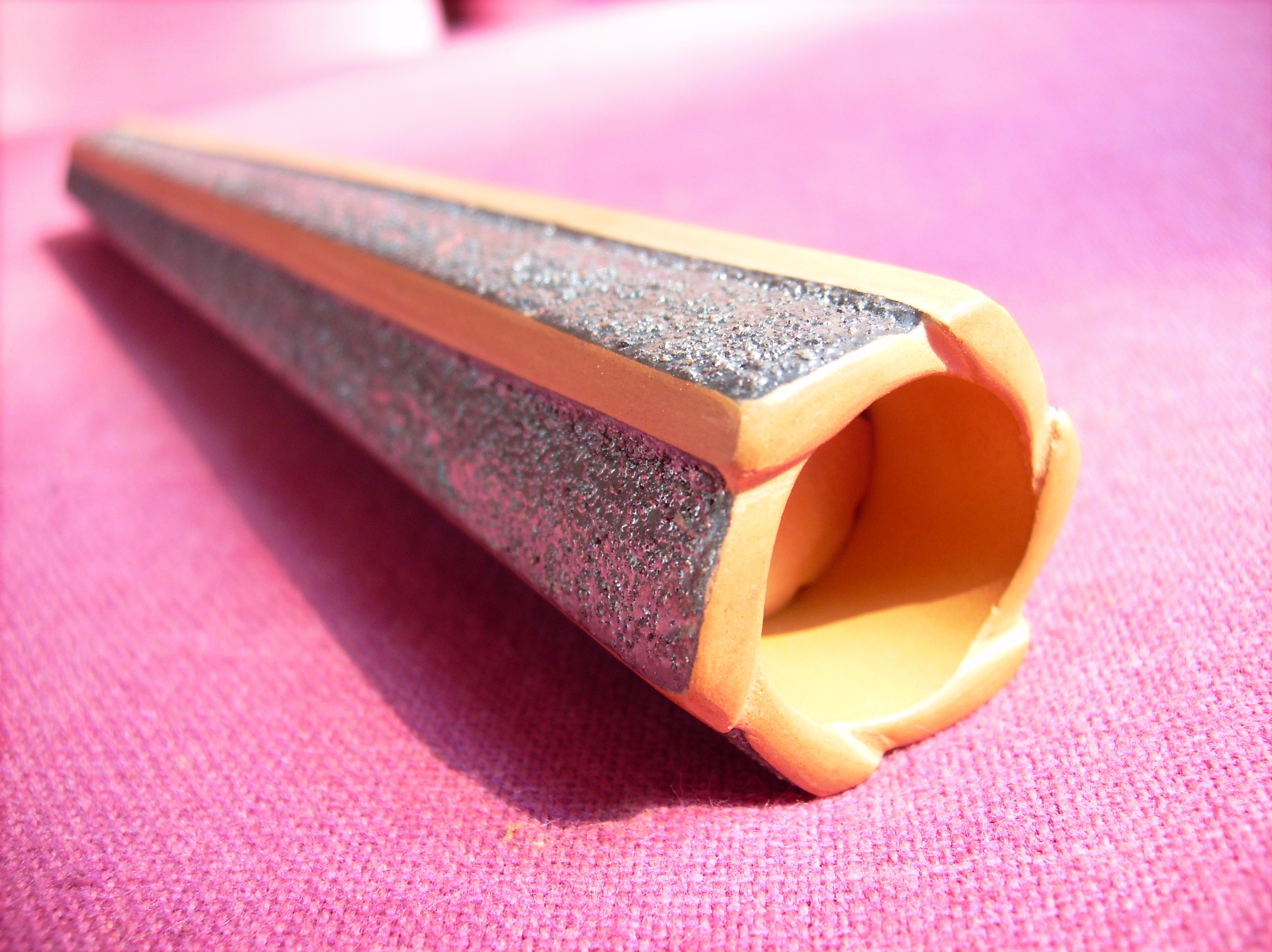 lotus